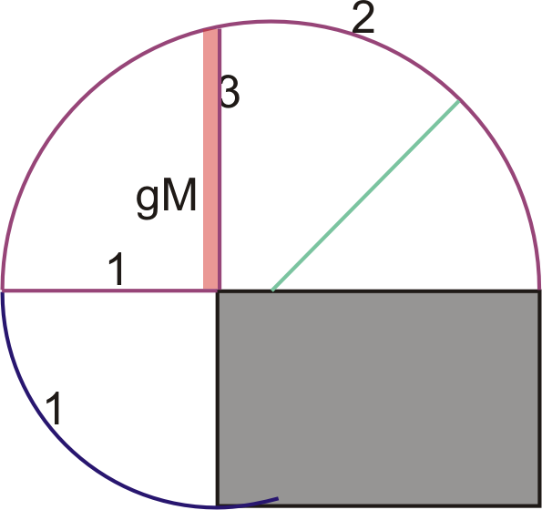 Drawing the geometric mean (Euklid)